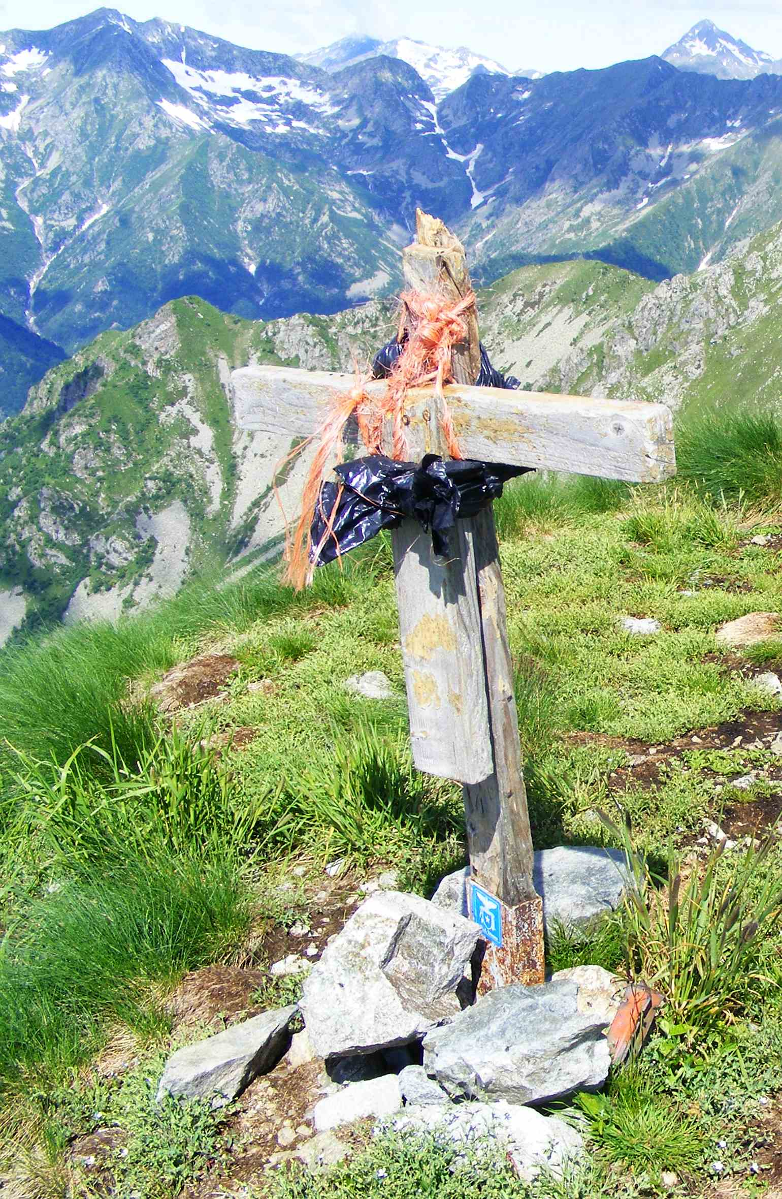 Cima delle Guardie (BI, Italy); on the background Mount Cresto and Colle della Vecchia